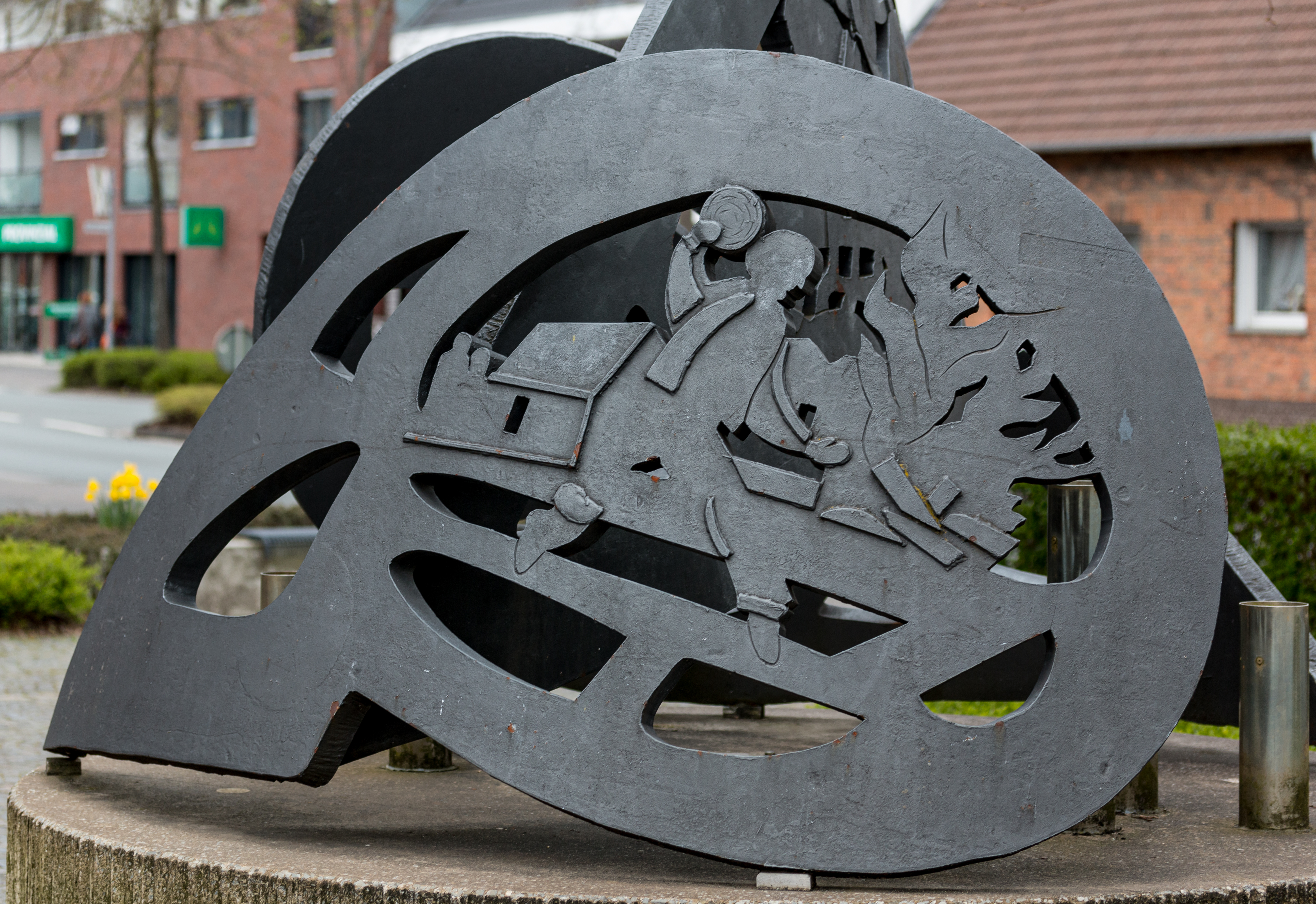 Detail “Bulderner Hasseln” of the scuplture at the “Großer Spieker” in Buldern, Dülmen, North Rhine-Westphalia, Germany Sculpture TitleToller Bomberg (?)ArtistUnknown artistDateUnknown dateUnknown date